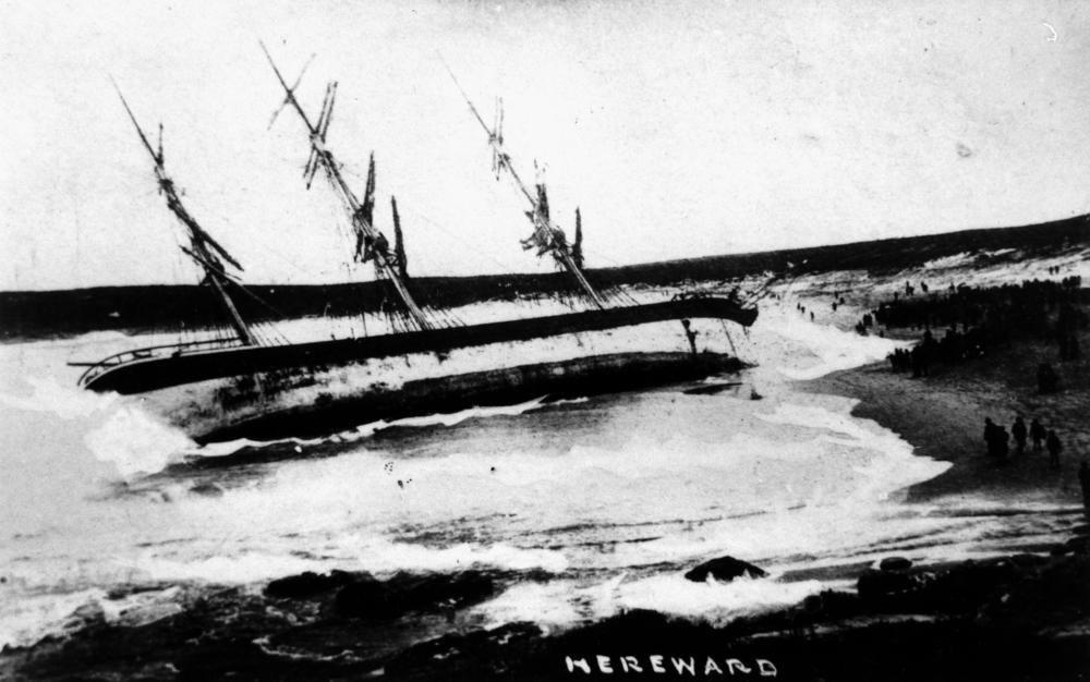 Hereward (ship); The 'Hereward' wrecked on Maroubra Beach. (Description supplied with photograph).